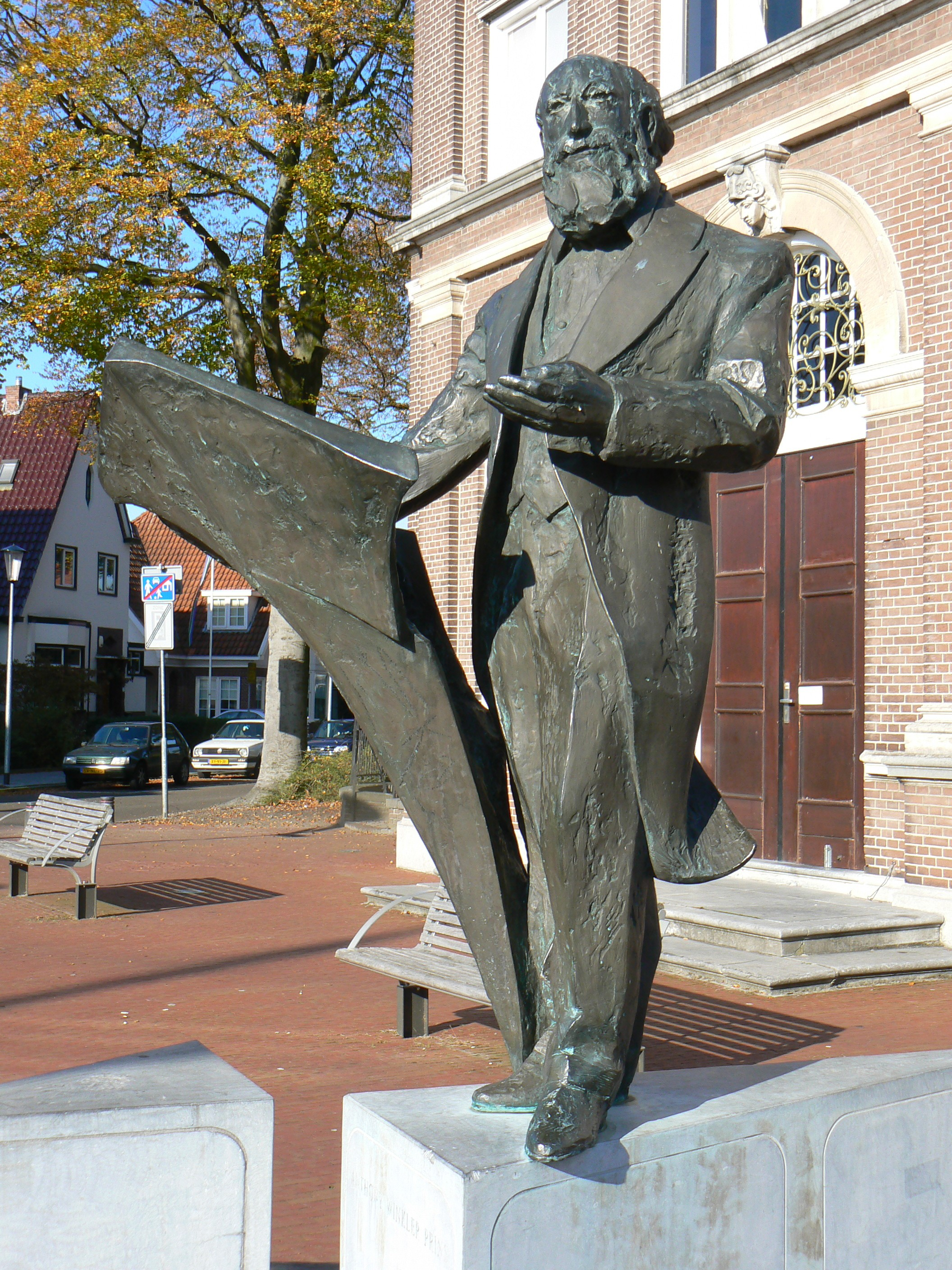 sculpture Winkler Prins by Christine Chiffrun in Veendam/The Netherlands